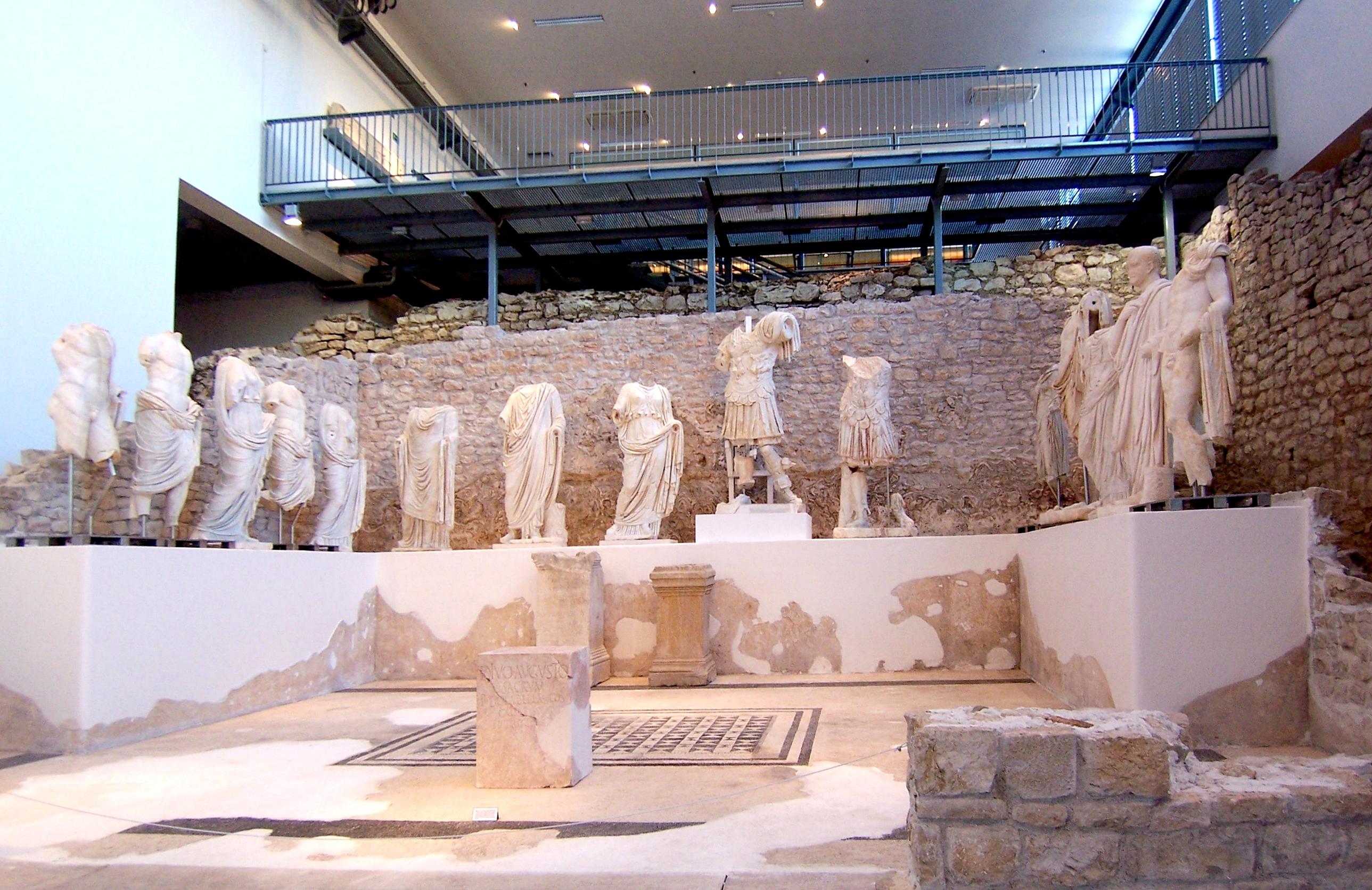 Statues of emperor's family (from left): Lucius Caesar, Julius Caesar, Julia, Marcus Vipsanius Agrippa, Antonia Minor, Octavia the Younger, Livia, Augustus, Tiberius, Germanicus, Nero Claudius Drusus, Claudius, Agrippina the Younger, Agrippina the Elder, Vespasian